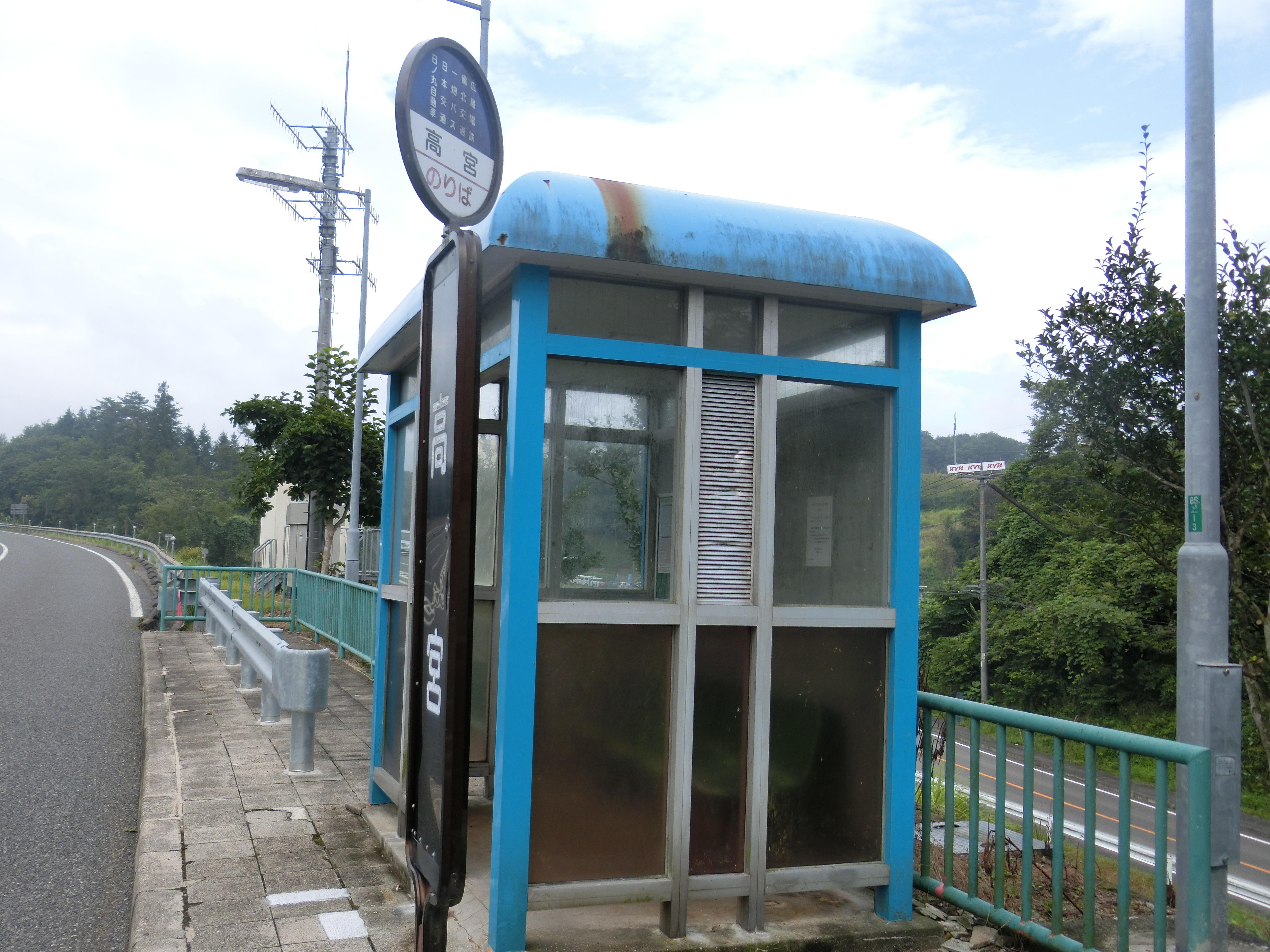 Upward bus stop of Takamiya Busstop on Chūgoku Expressway located in Aki-Takata.